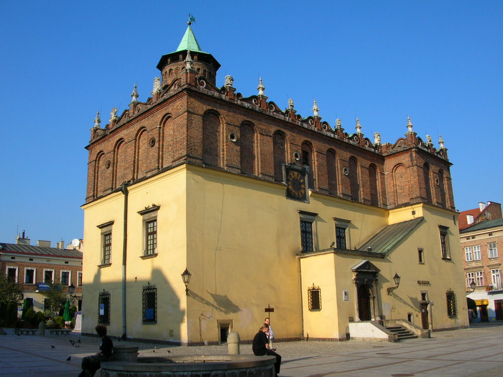 Town Hall at Main Square in Tarnów